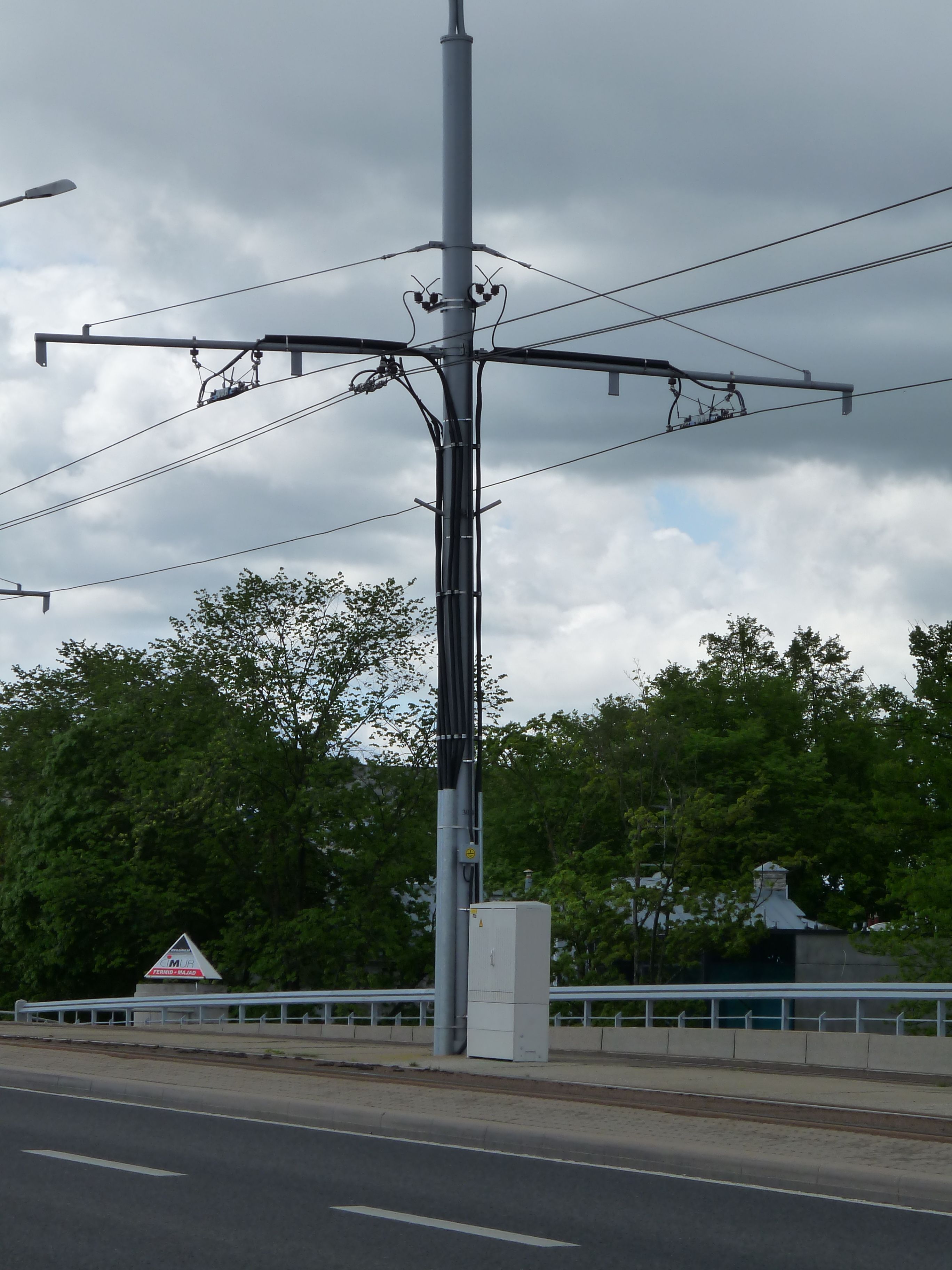 Tram transport infrastructure in Tallinn, Estonia